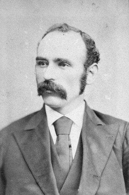 Portrait of Michael Davitt